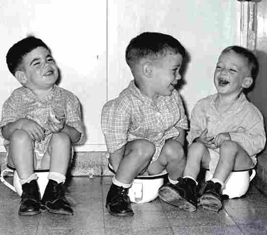 Kibbutz children sitting on chamber pots ("Sir Laila") as part of their collective education. KIbbutz Eilon in the mid 60's.